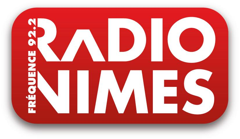 Actuals Logo from 03/31/2016